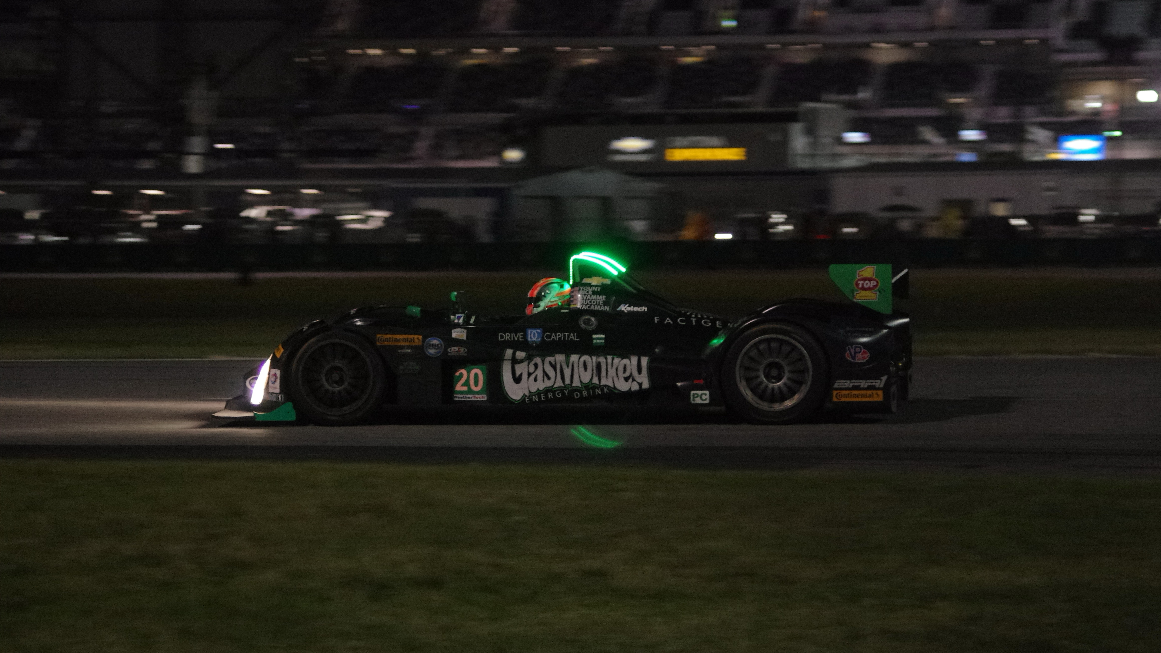 20 BAR1 Motorsports Gas Monkey Oreca FLM09 - Yount, Rice, Ducote, Yacaman, Kvamme